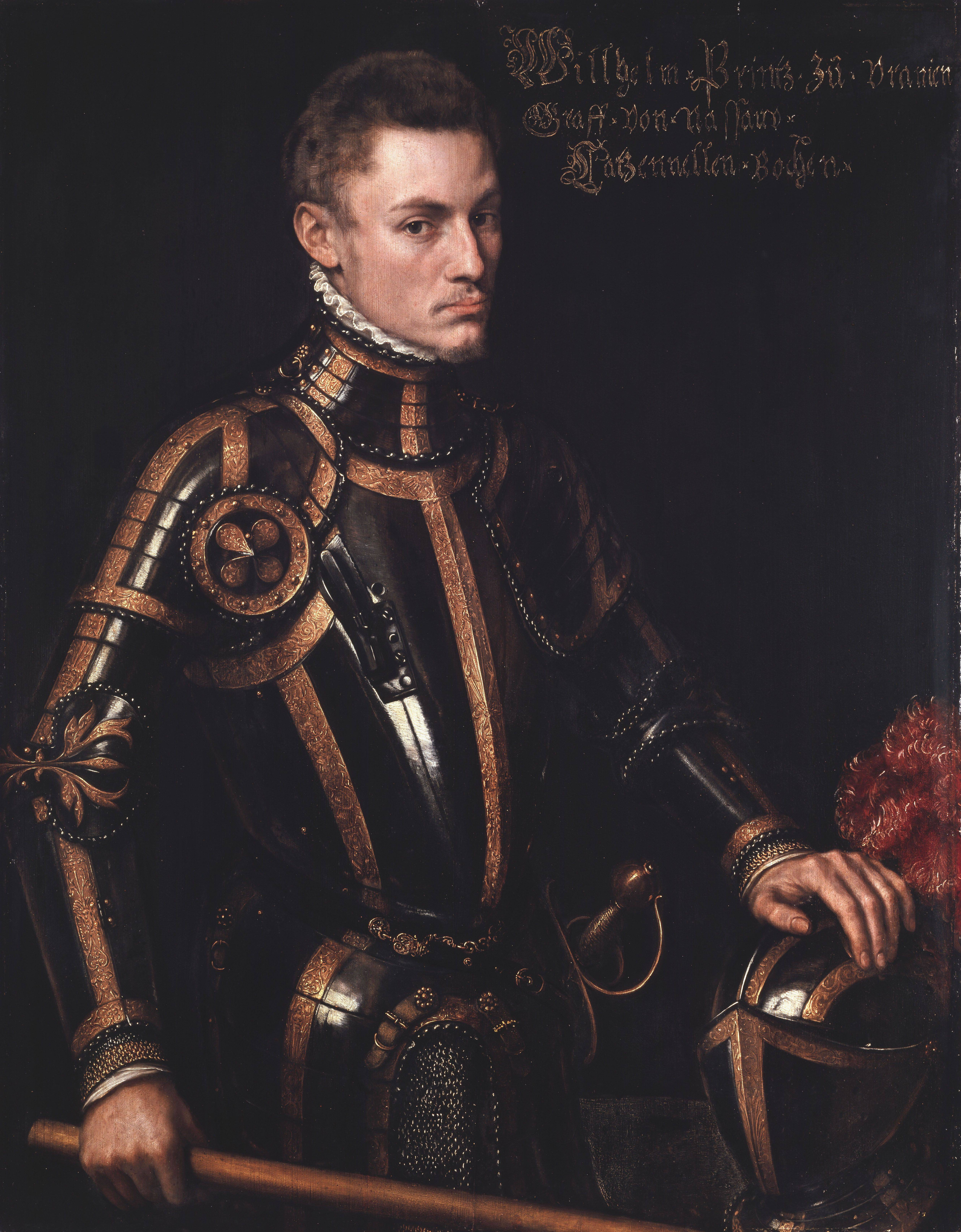 William of Orange in Armour (Anthonis Mor)